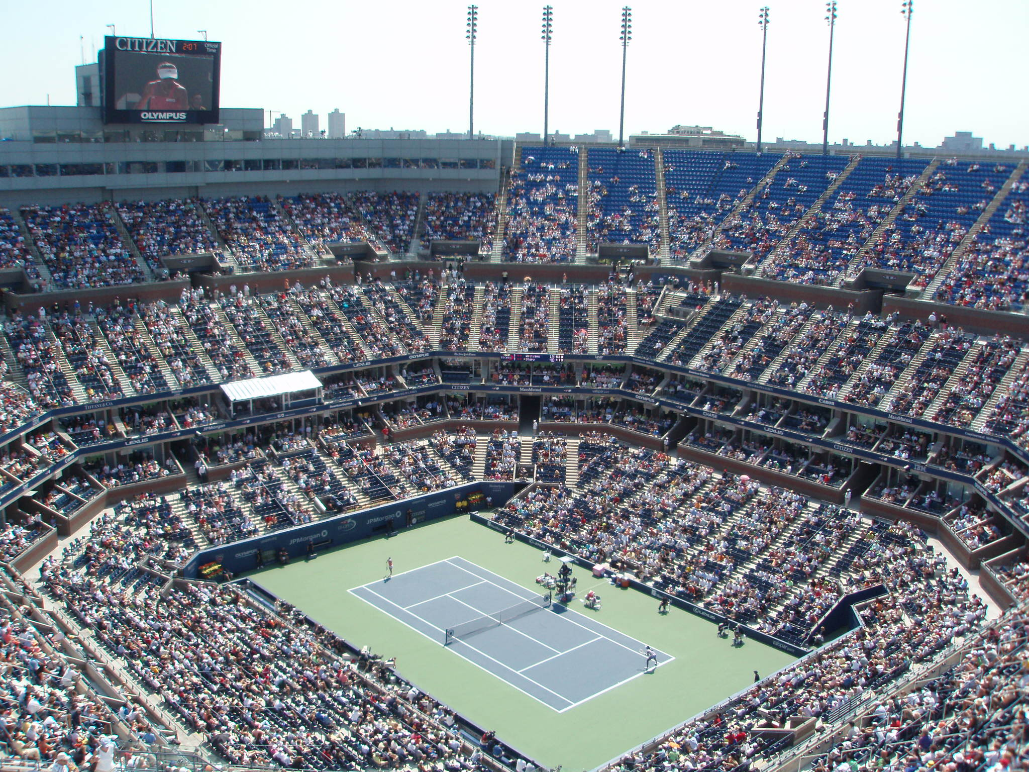 Venus Williams At Arthur Ashe Stadium During The 2007 US Open